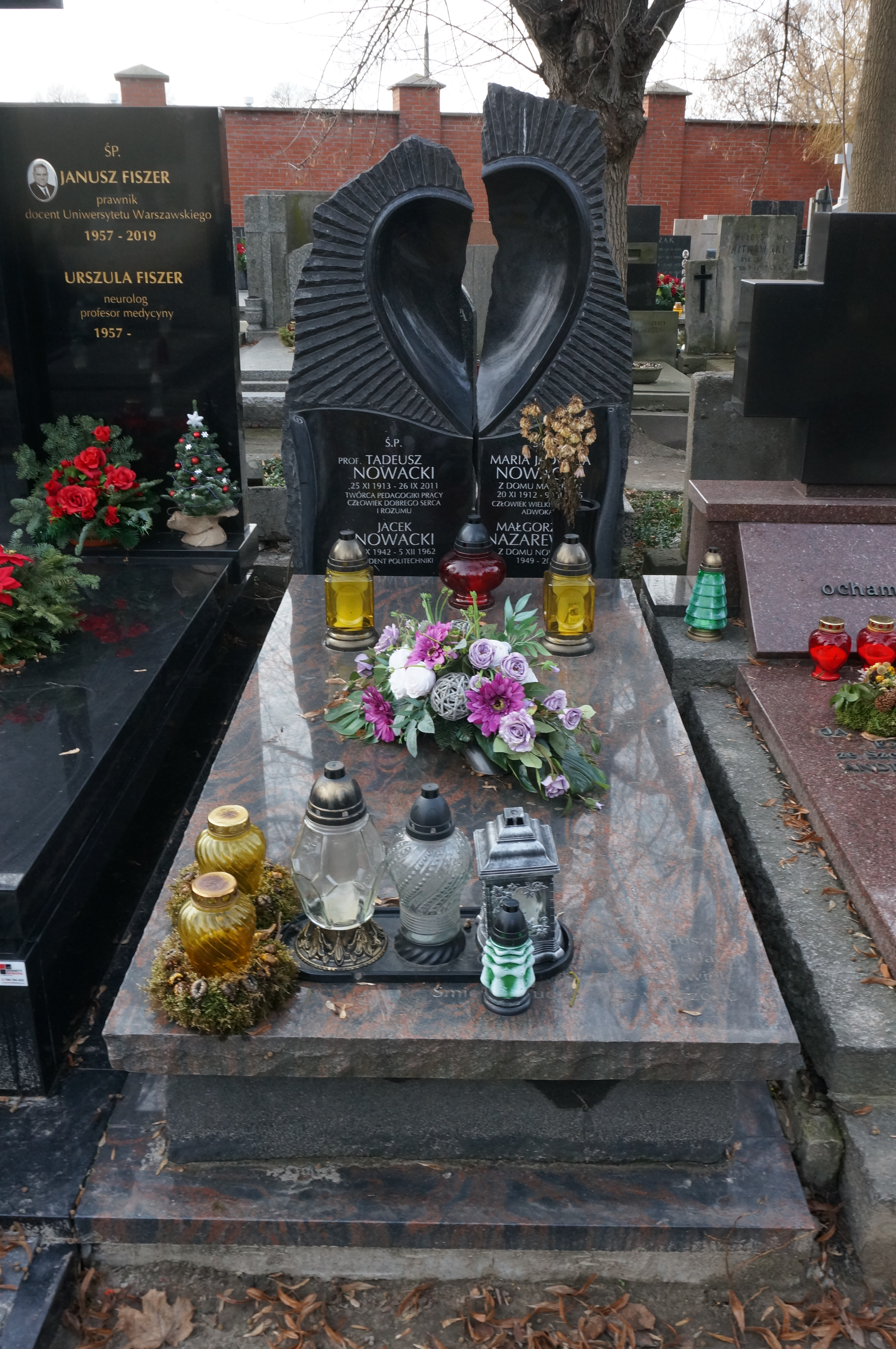 The grave of Tadeusz Wacław Nowacki at the Powązki Cemetery (section 154c, row 5, grave 5)